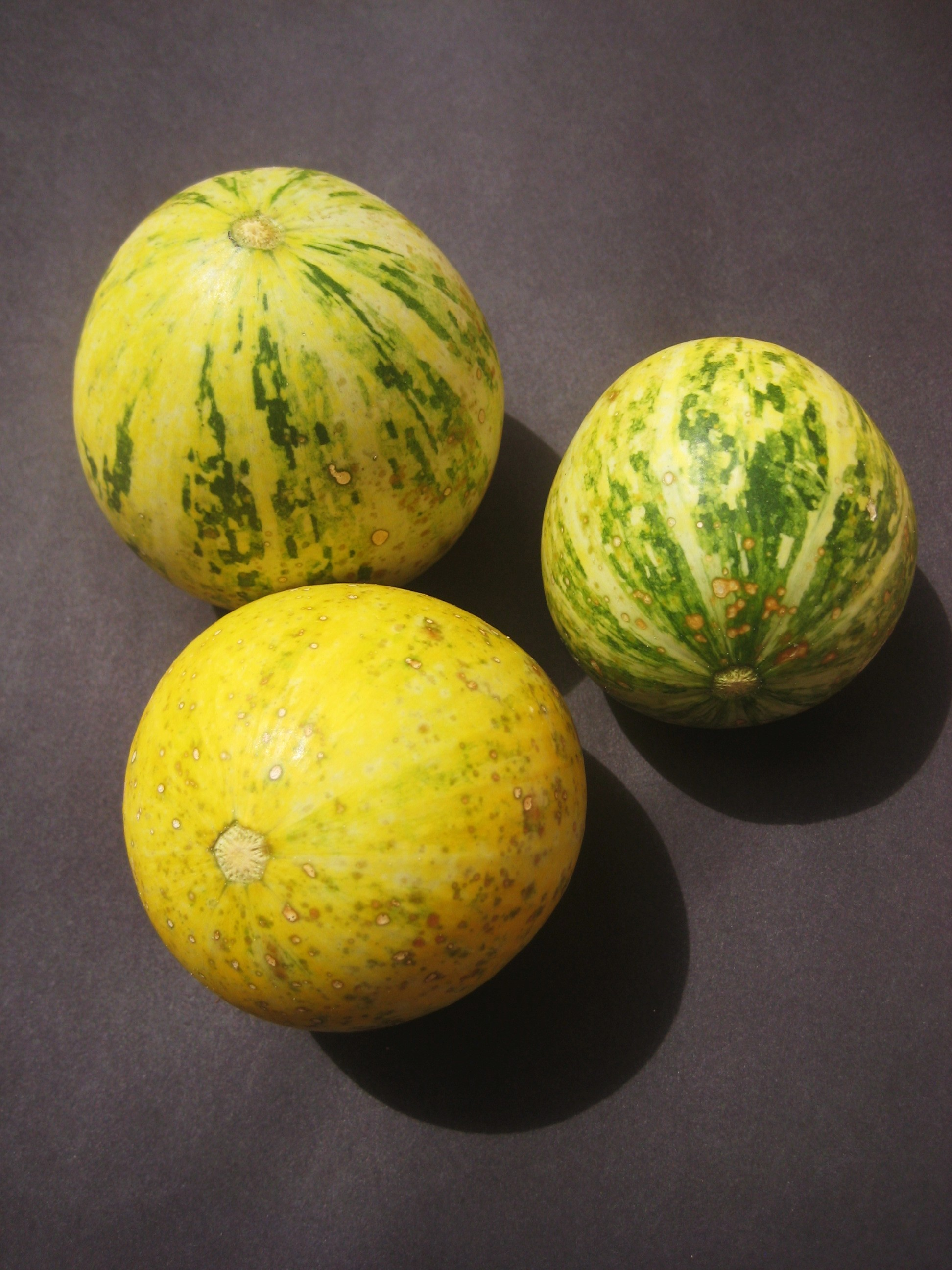 Mature Cucurbita foetidissima fruits found at Austin, Texas